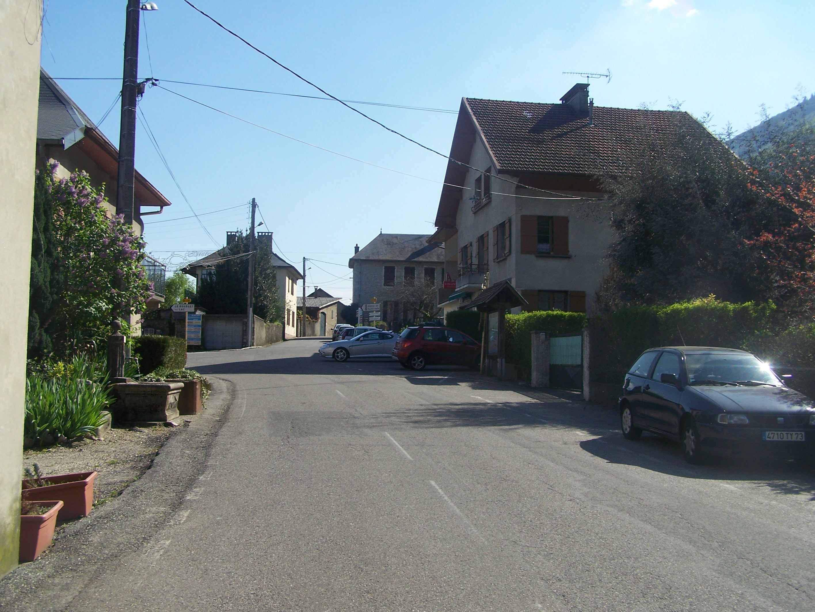 The Savoyan commune of Bourdeau, above the Lake of Bourget.